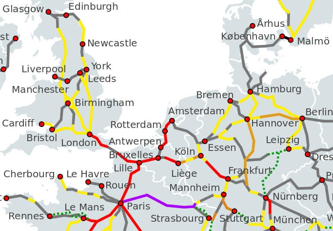 regional part around The Netherlands of the HSR network in 2012